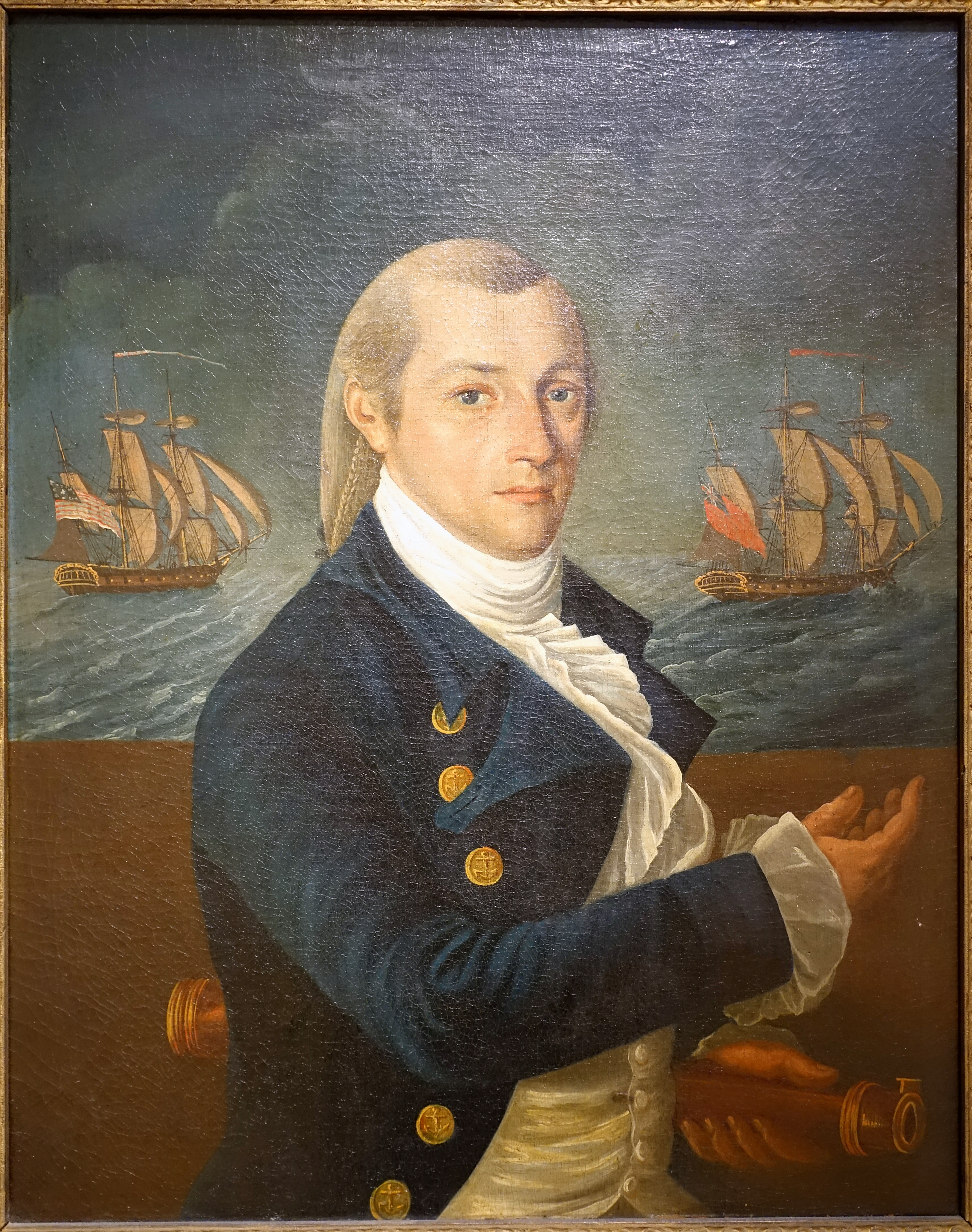 Exhibit in the Peabody Essex Museum - Salem, Massachusetts, USA.